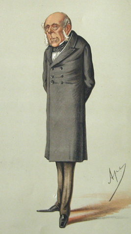 Caricature of George Villiers, 4th Earl of Clarendon. Caption read "To say that he is the best foreign minister in the country is not much as foreign ministers go; but as times go it is a great deal".